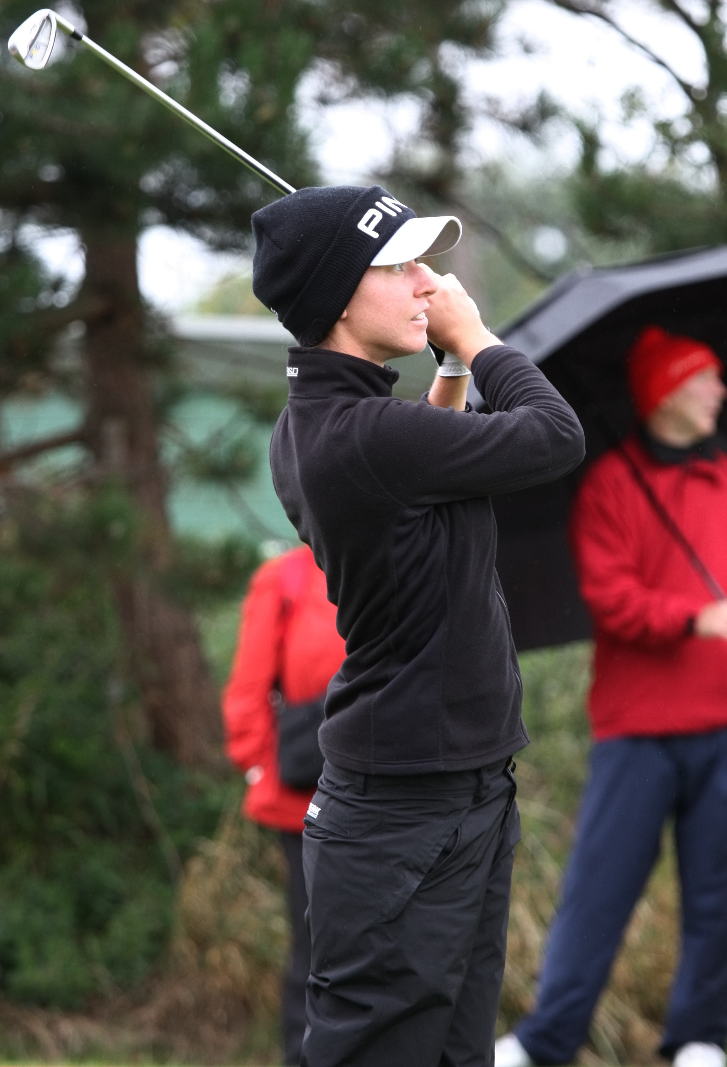 LYTHAM ST ANNES, UNITED KINGDOM - JULY 29: Louise Stahle of Sweden watches her tee shot to the 12th green during third practice round before 2009 Ricoh Women's British Open held at Royal Lytham & St Annes on July 29, 2009 in Lytham St Annes, England. (Photo by Wojciech Migda)